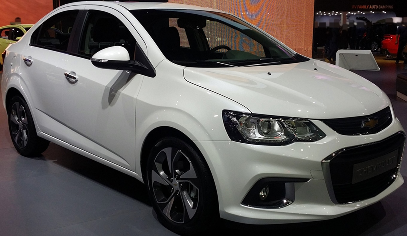 Chevrolet The New Aveo